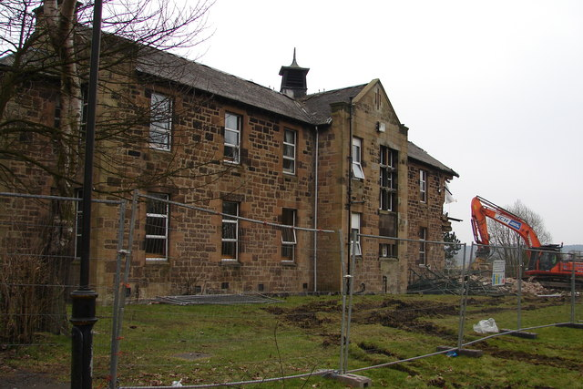 Demolition at Cleland Hospital